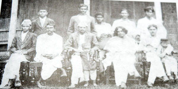 Kazi Nazrul Islam with the Kendriya Muslim Sahitya Sangsad in Sylhet.